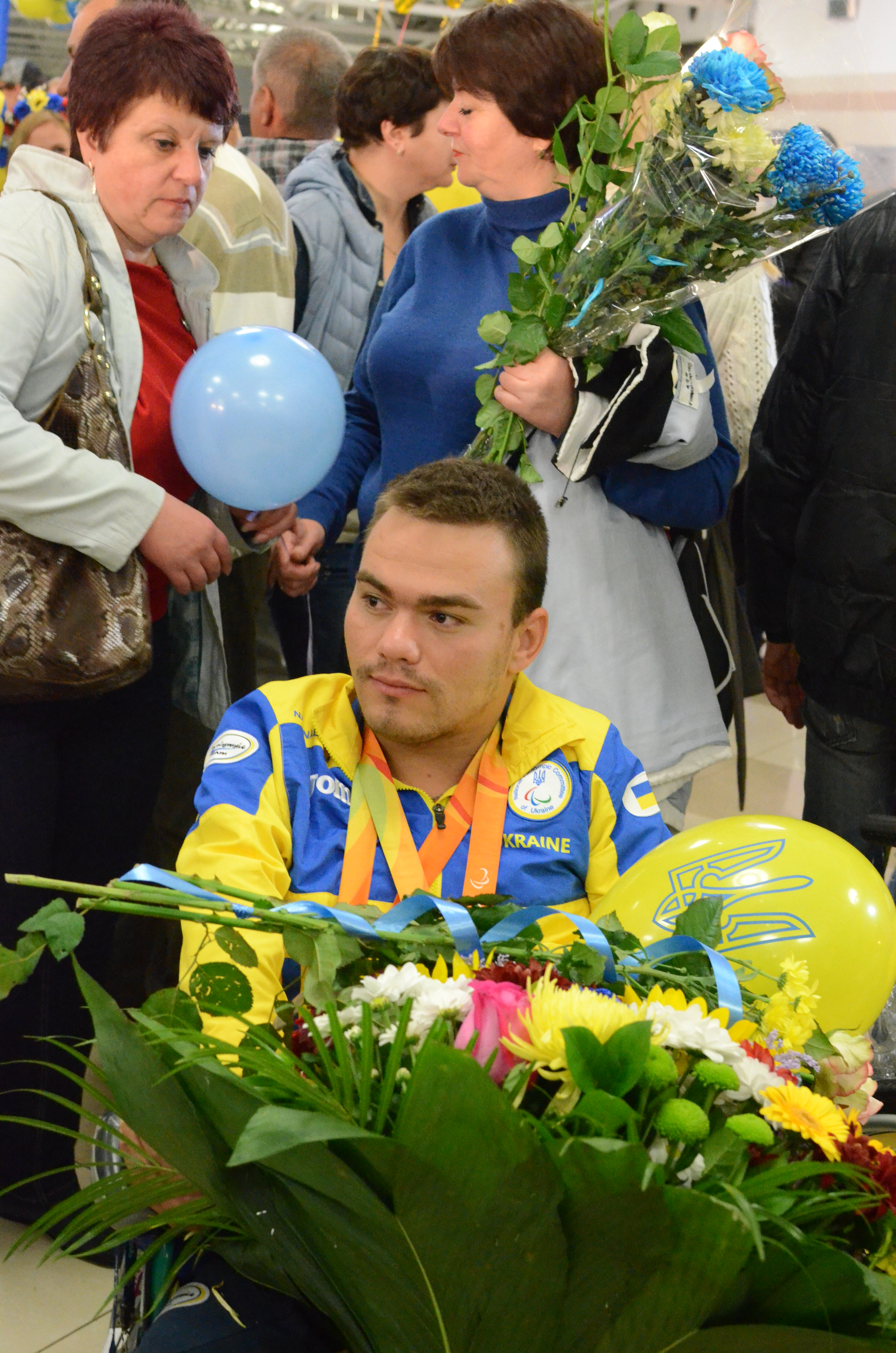 Ukrainian National Paralympic team welcomed at Boryspil (September 21, 2016). On picture: Anton Kol